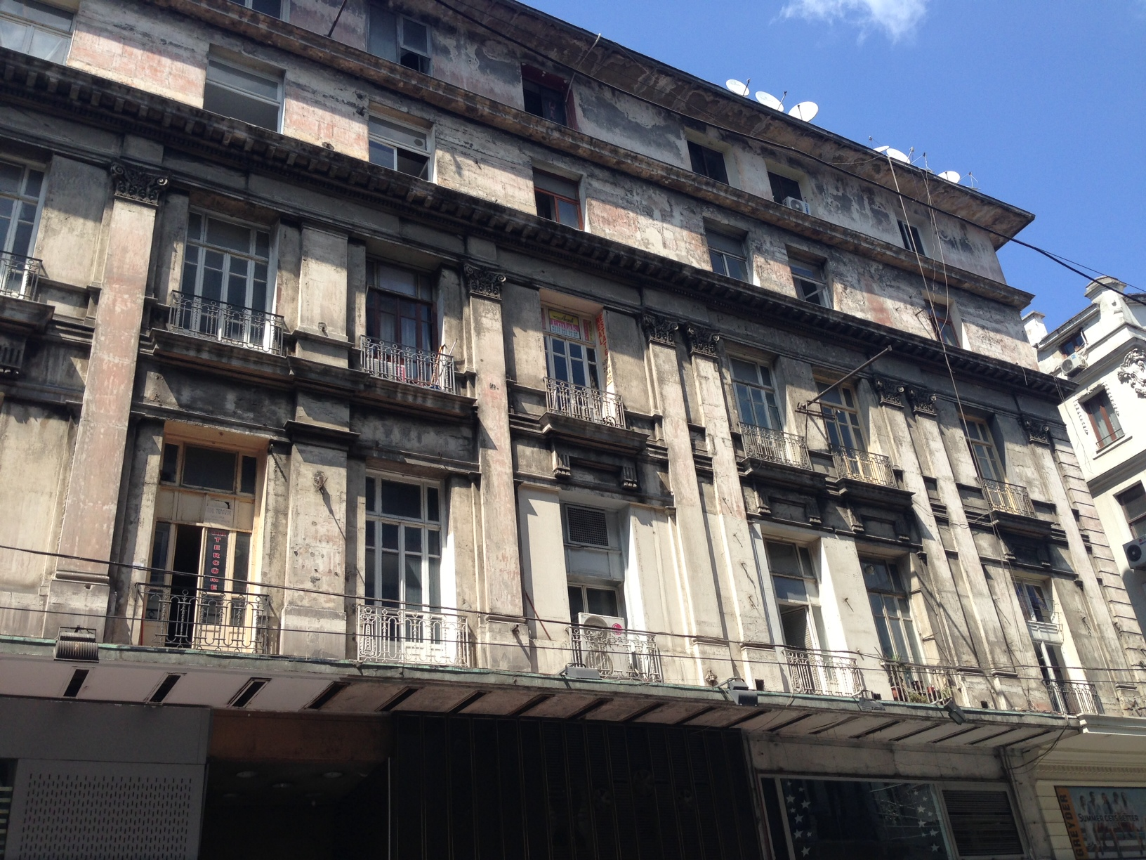 Tokatliyan Hotel